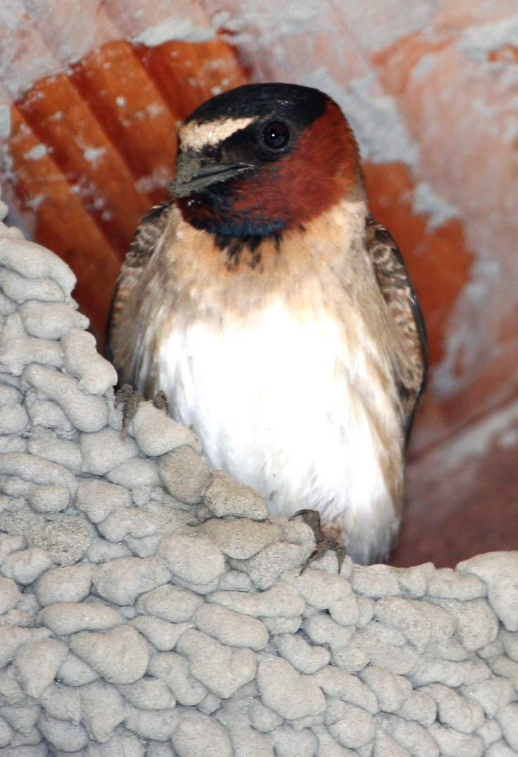 Cliff Swallow (Petrochelidon pyrrhonota)